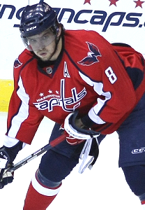 Alex Ovechkin, 2009